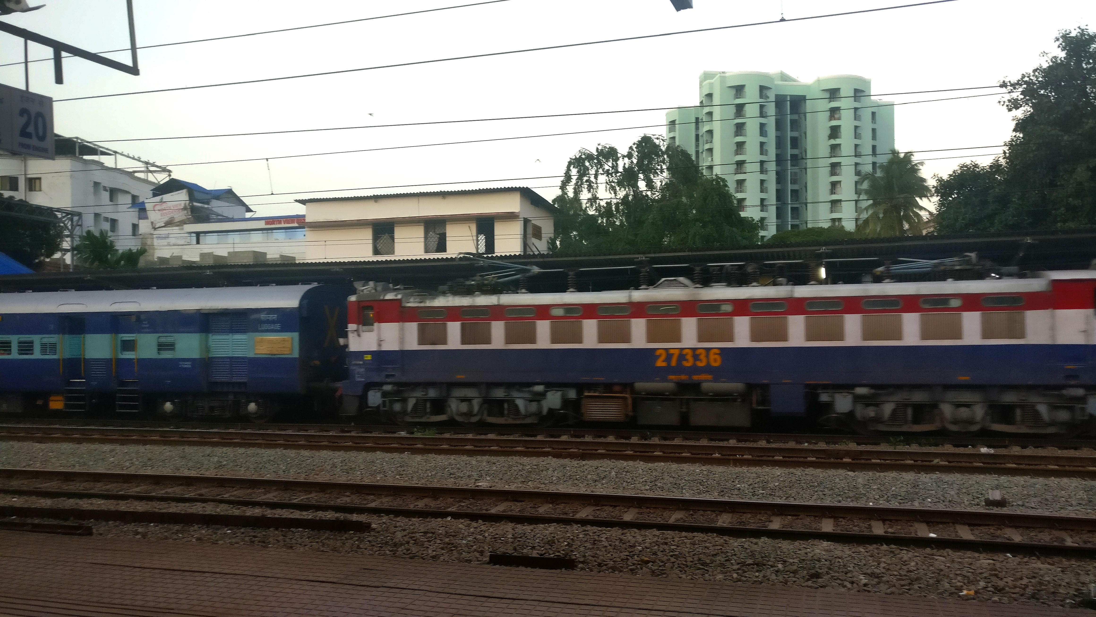 Palaruvi Express is a train service connecting Punalur in Kollam district with Palakkad Junction.